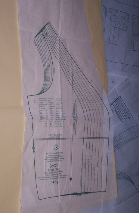 Sewing pattern Part of a pattern to make a dress. Pictures taken while making a dress.